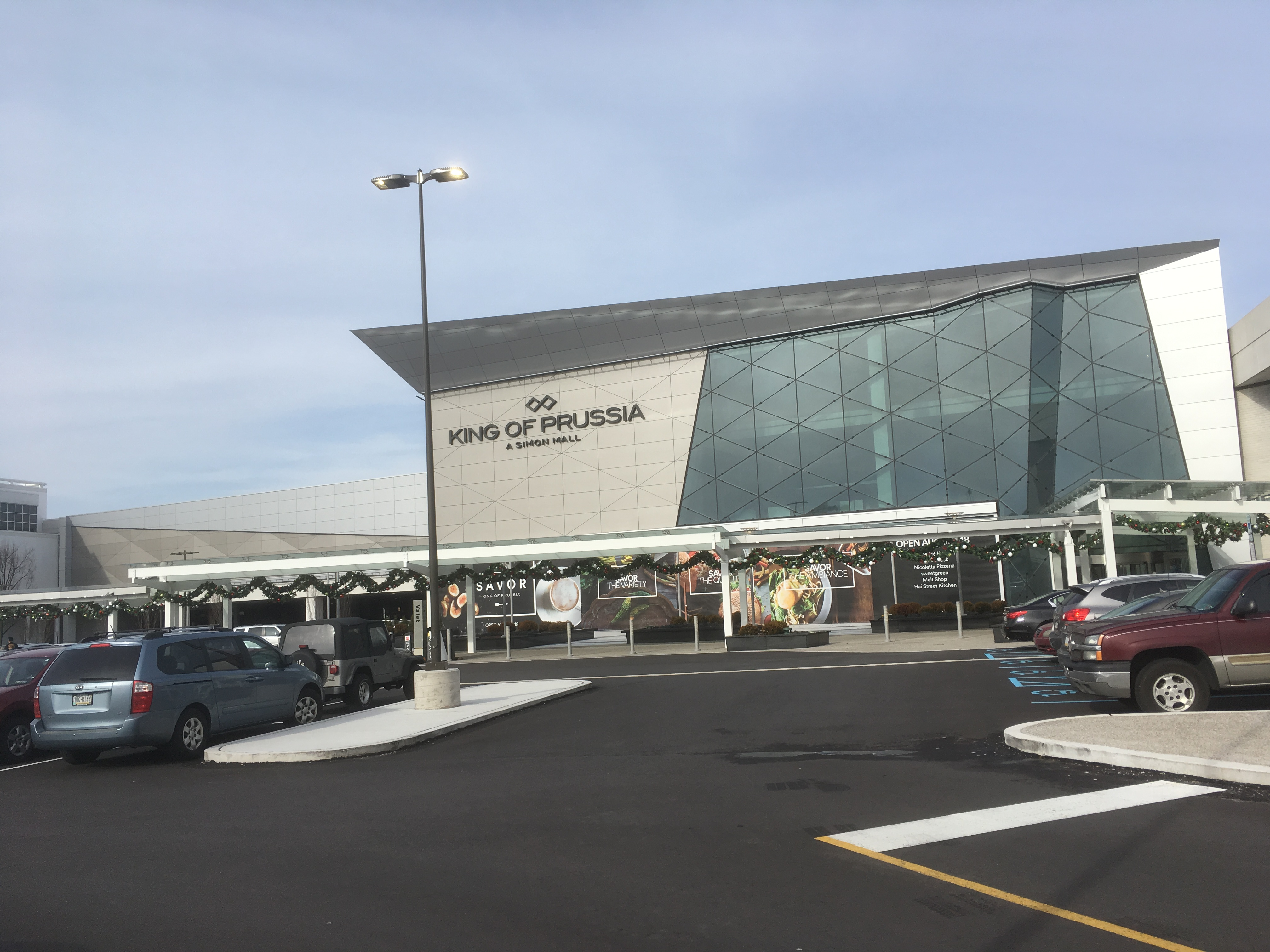 The entrance to King of Prussia Mall between Neiman Marcus and Macy's, located in the mall expansion that opened in August 2016, King of Prussia, Pennsylvania